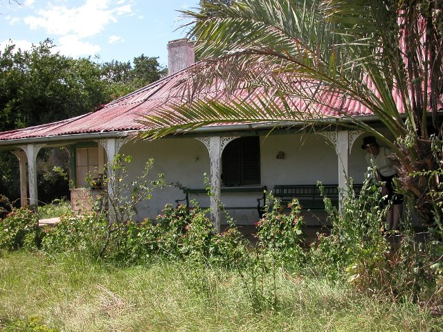 Cliefden, Mandurama: Northern side of the house showing front verandah and 1840's part of the house